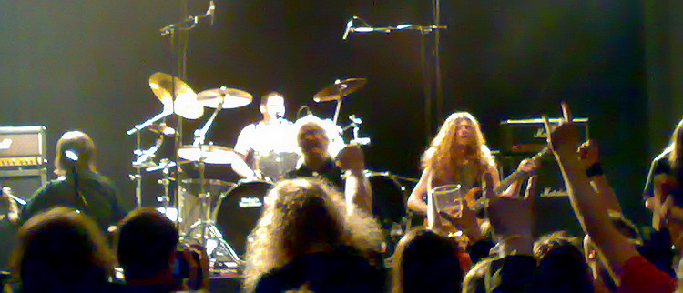 Pagan Altar live in Oslo